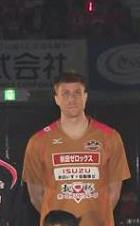 Scott Morrison 2016, Akita